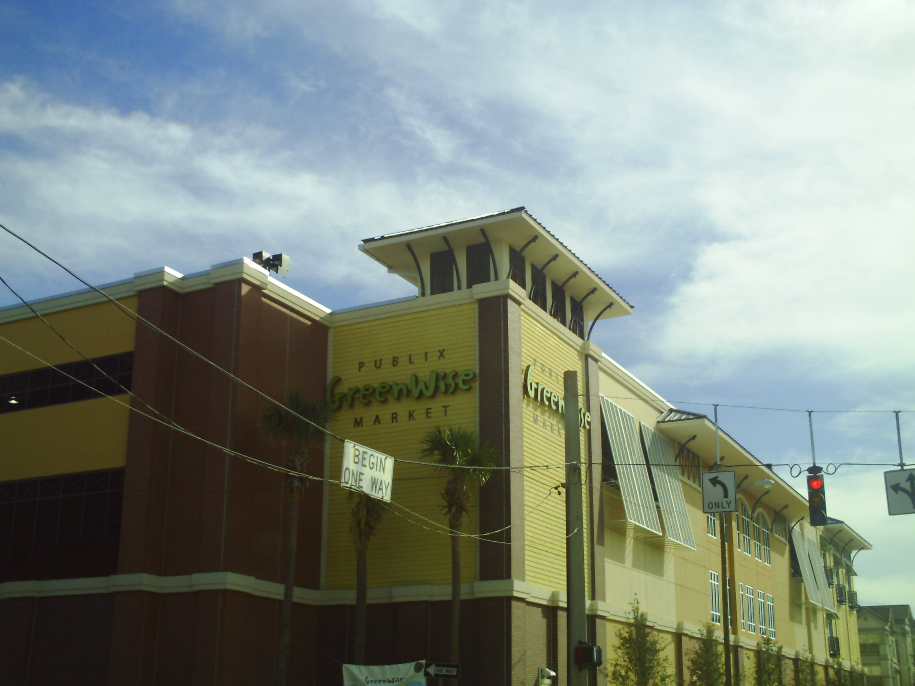 Taken by W.Slupecki